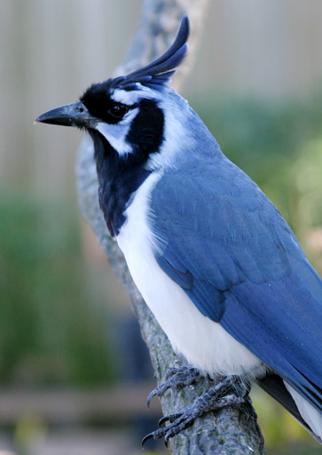 Black-throated Magpie-jay, Calocitta colliei, captive bird. Location: Jacksonville Zoo, Jacksonville, Florida, United States